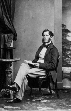 Portrait of Edward Horsman, British M.P.